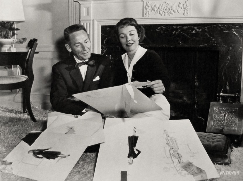 costume designer Milo Anderson & Jane Wyman on the set of Miracle in the Rain - publicity still